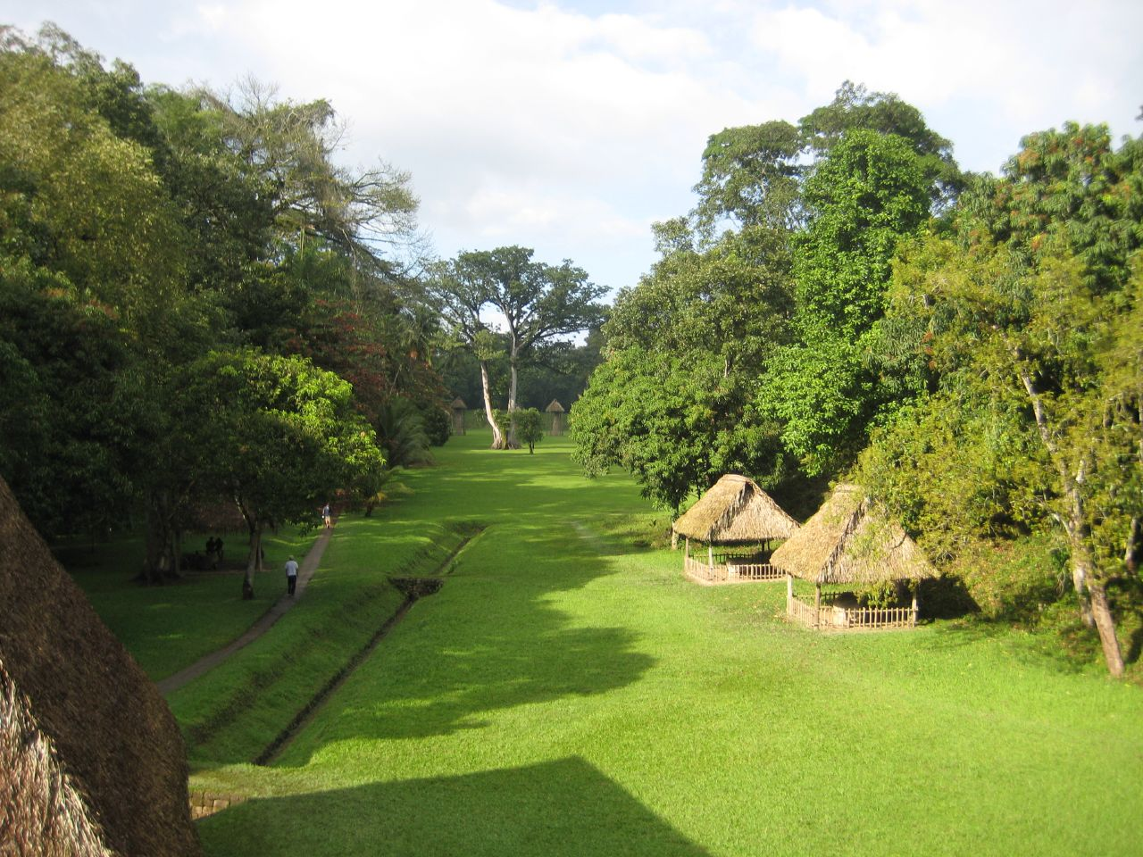 View of the Great Plaza of Quirigua looking north from the Acropolis.